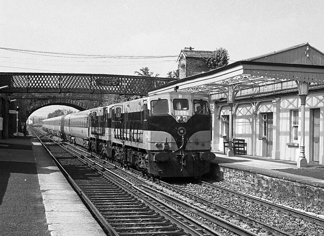 Train at Newbridge (Droichead Nua):: OS grid N7915 :: Geograph Ireland Two CIE 141/181 class locomotives bring the 07.30 Westport - Dublin passenger train into Newbridge station. Probably dating from 1846 when the railway line from Dublin to Carlow opened, Newbridge is a good example of Great Southern...